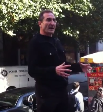 Randy Martin at the People's University in Washington Square Park special meeting at NYU's Stern Business School.